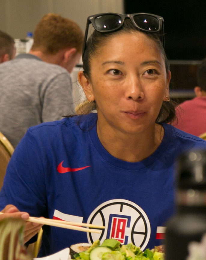 Natalie Nakase of the Los Angeles Clippers with soldiers across U.S. Army Garrison-Hawaii while they dine with players and the coaching staff following a combined team-building event, September 27, in Waikiki Beach, Oahu, Hawaii. The Clippers are in Hawaii for their annual training in partnership with the University of Hawai'i at Mānoa.